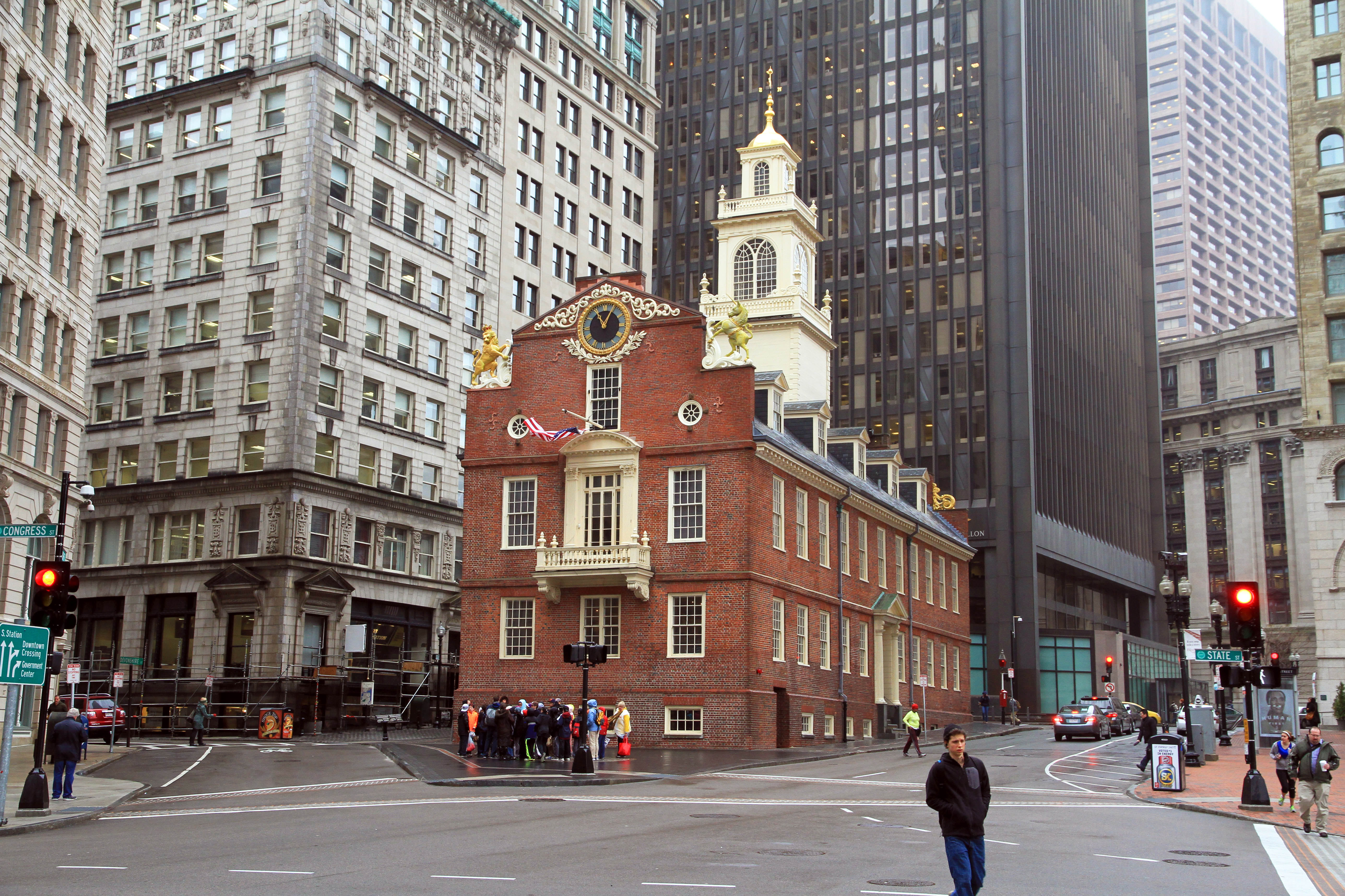 Old State House